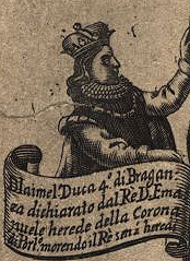 James I, Duke of Braganza